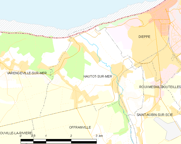 Map of French municipality Hautot-sur-Mer